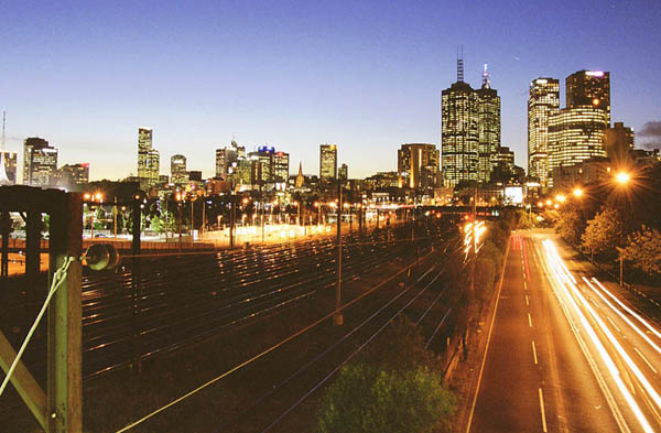 TheMelbourne Skyline at Twilight